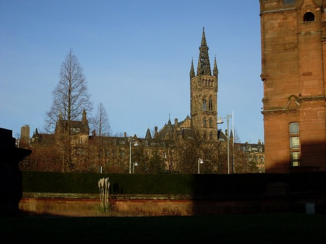 Glasgow University Old Building from the side of the Kelvingrove Art Gallery